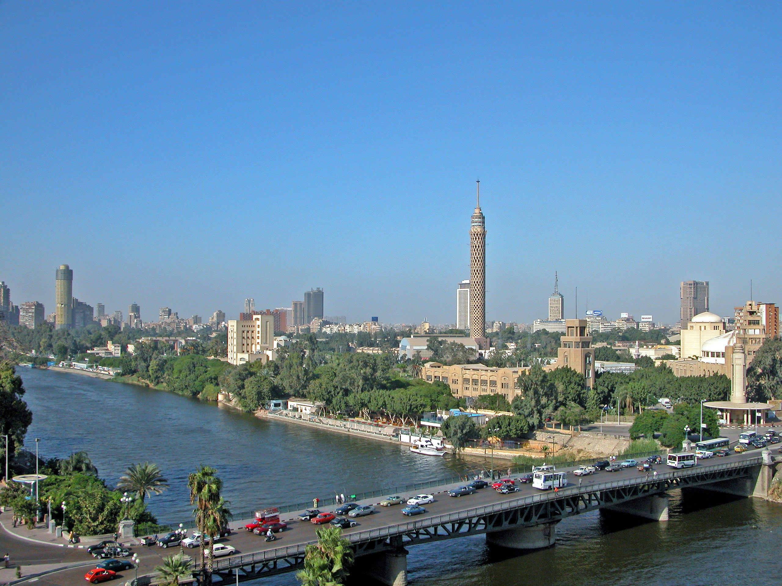 View of the Nile River and Gezira island, al -gala bridge, Cairo, Egypt